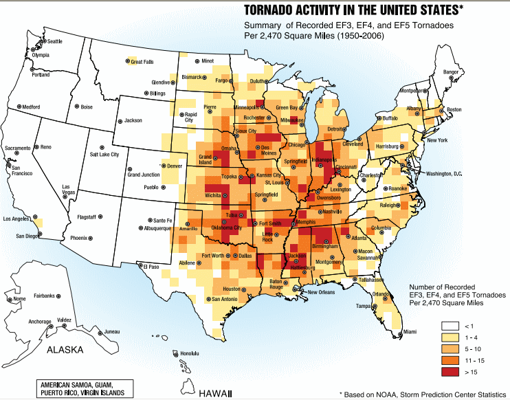 A map of the frequency of F3 and greater intensity tornadoes by area. The darker colors highlight the areas typically known as a Tornado Alley.